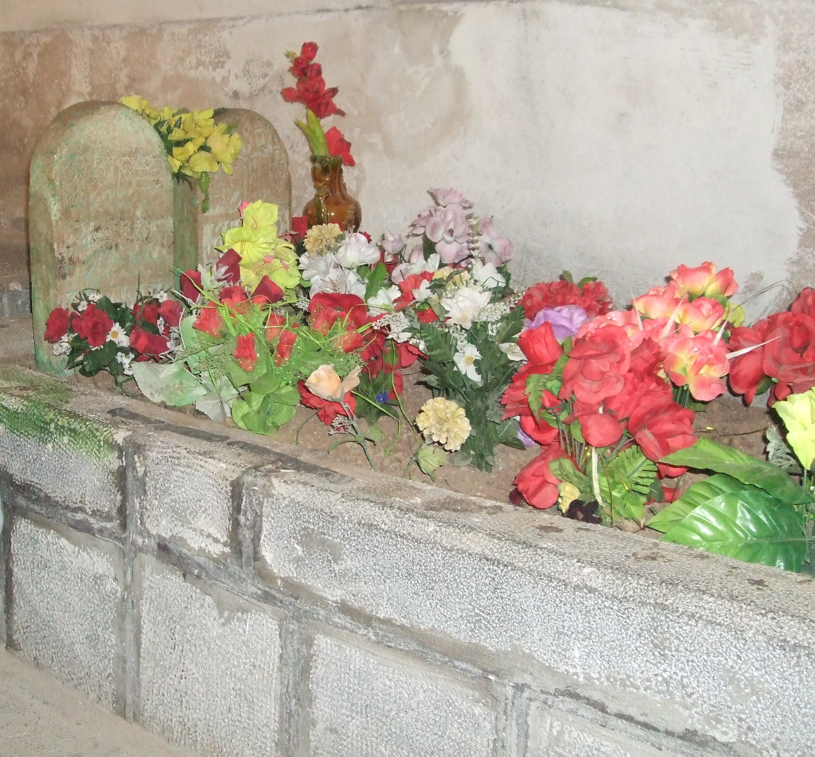 Grave of Mem and Zin. Kurdî: Gora Mem û Zîn.